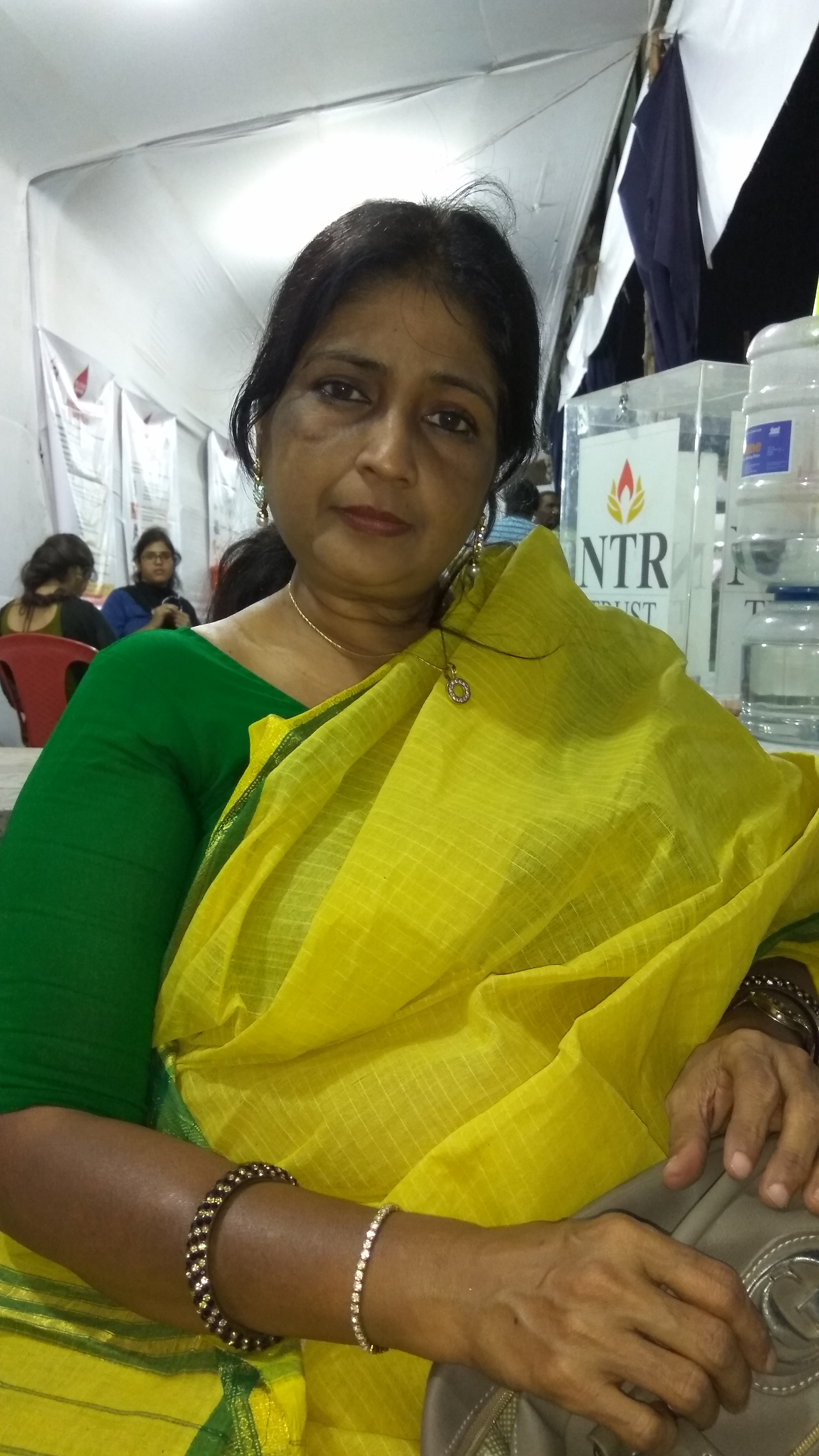 Mahejabeenu